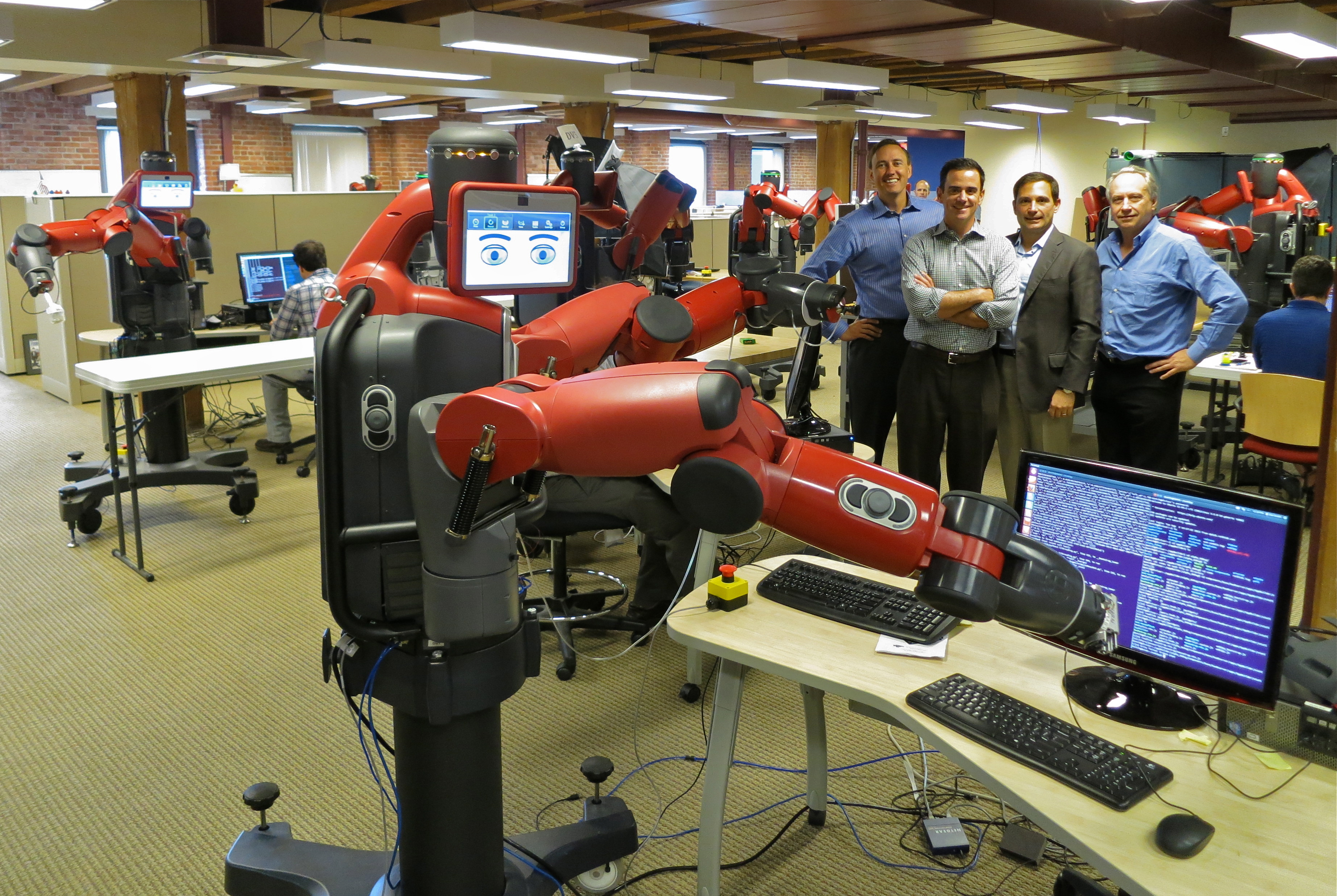 with Rodney Brooks, founder of Rethink Robotics, and my partners Andreas and Josh. I learned a cool historical detail about the Rethink Robotics’ HQ in Boston; it was the site of the early experiments in using electricity for manufacturing automation. There is a huge brick smoke stack outside, which was originally used to generate electricity for the buildings, and was characterized as having 16,000 light bulbs of output. Then they had the new thought that perhaps this electricity could be used for something other than lighting. And the Industrial Revolution in America began.